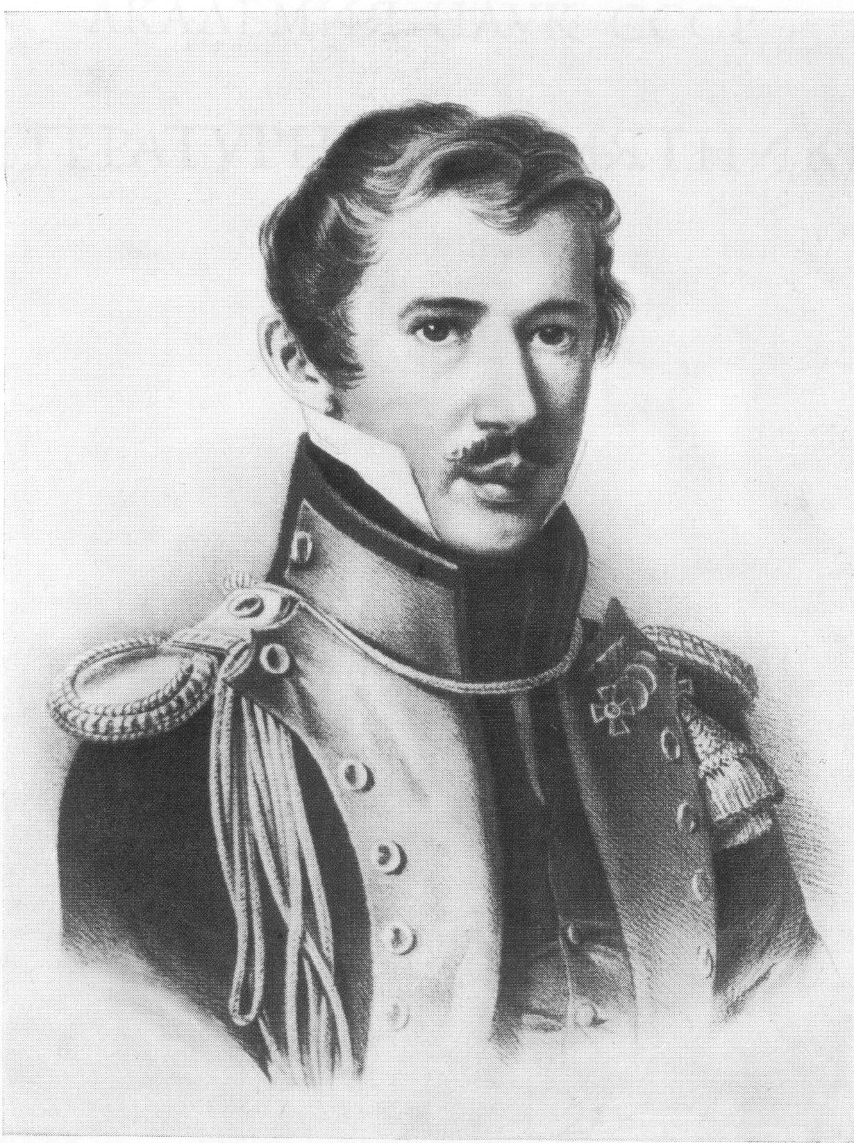 Michael Lunin, 1822 lithograph